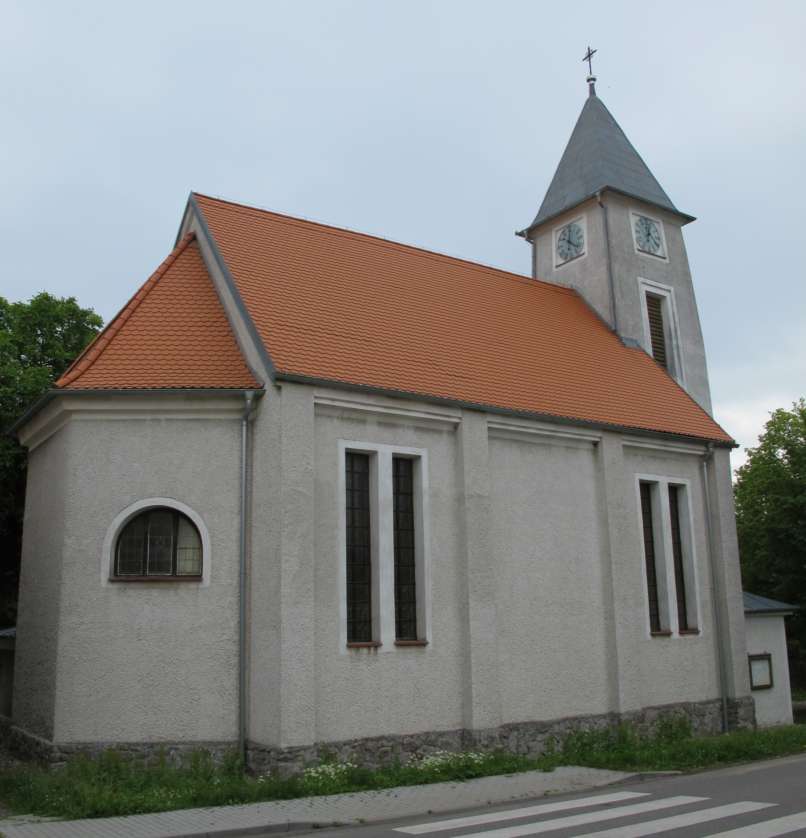 Church in Rosovice in Příbram District